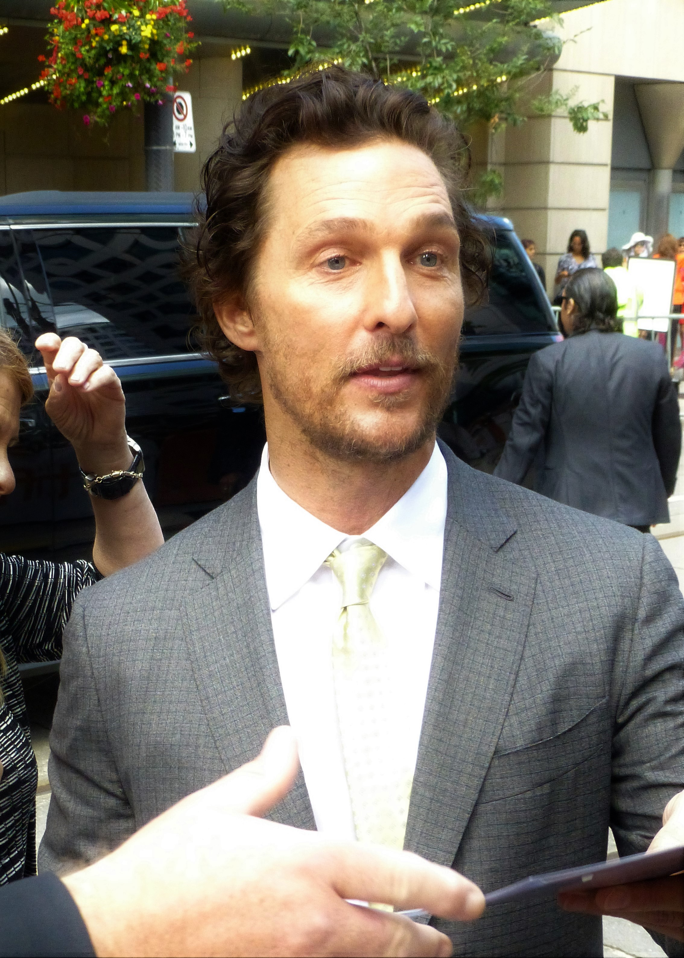 Matthew McConaughey at the premiere of Sing, 2016 Toronto Film Festival